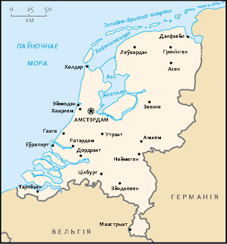 Map of the Netherlands in Belarusian